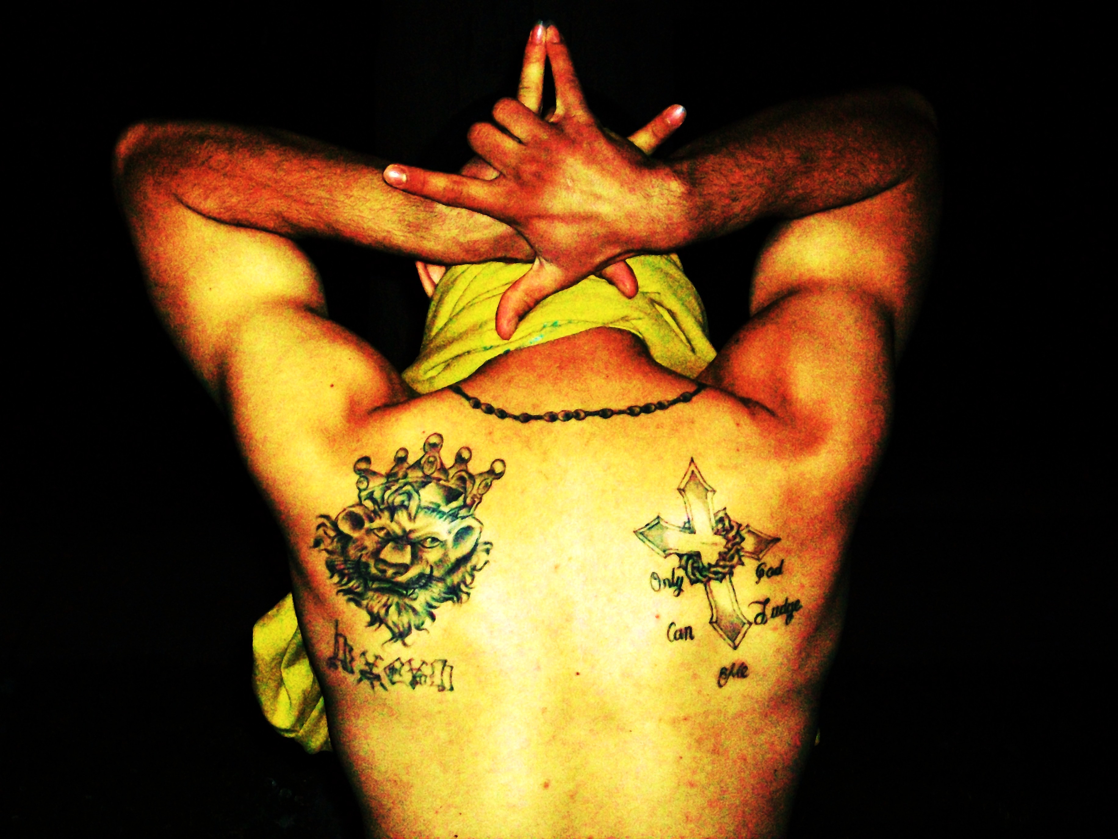 This is a picture of a Latin King showing his Latin King tattoo--a lion with a crown--and signifying the five point star with his hands, which stands for the "Almighty" in the "Almighty Latin King and Queen Nation". No one else can claim copyright ownership of his picture and the individual in this picture approves of me posting this picture; I release it to the public. the left represents bakersfield california.